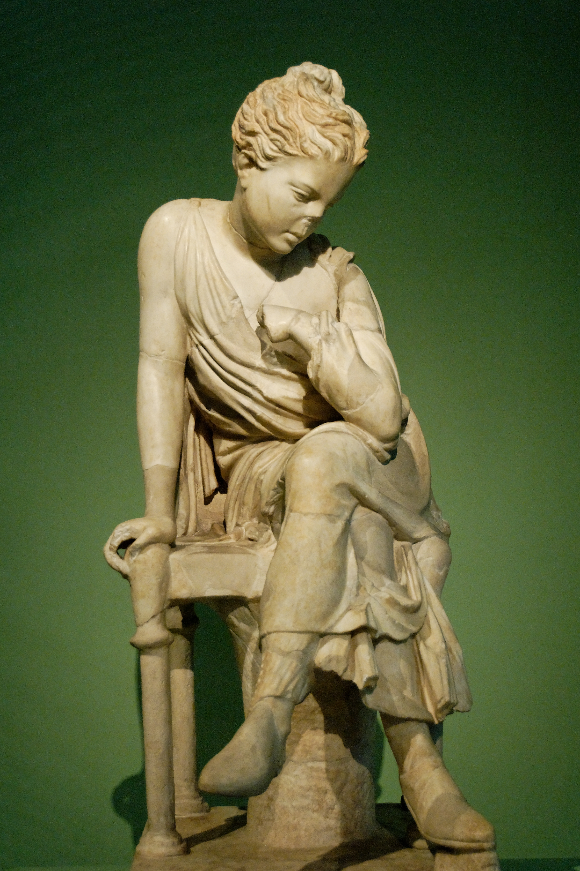 Seated girl, known as the Conservatori Girl. Pentelic marble, Roman copy of the Hadrianic period after a Greek original of the school of Lysippos or a Roman creation. From the temple of Minerva Medica in the Horti Liciniani, 1879.